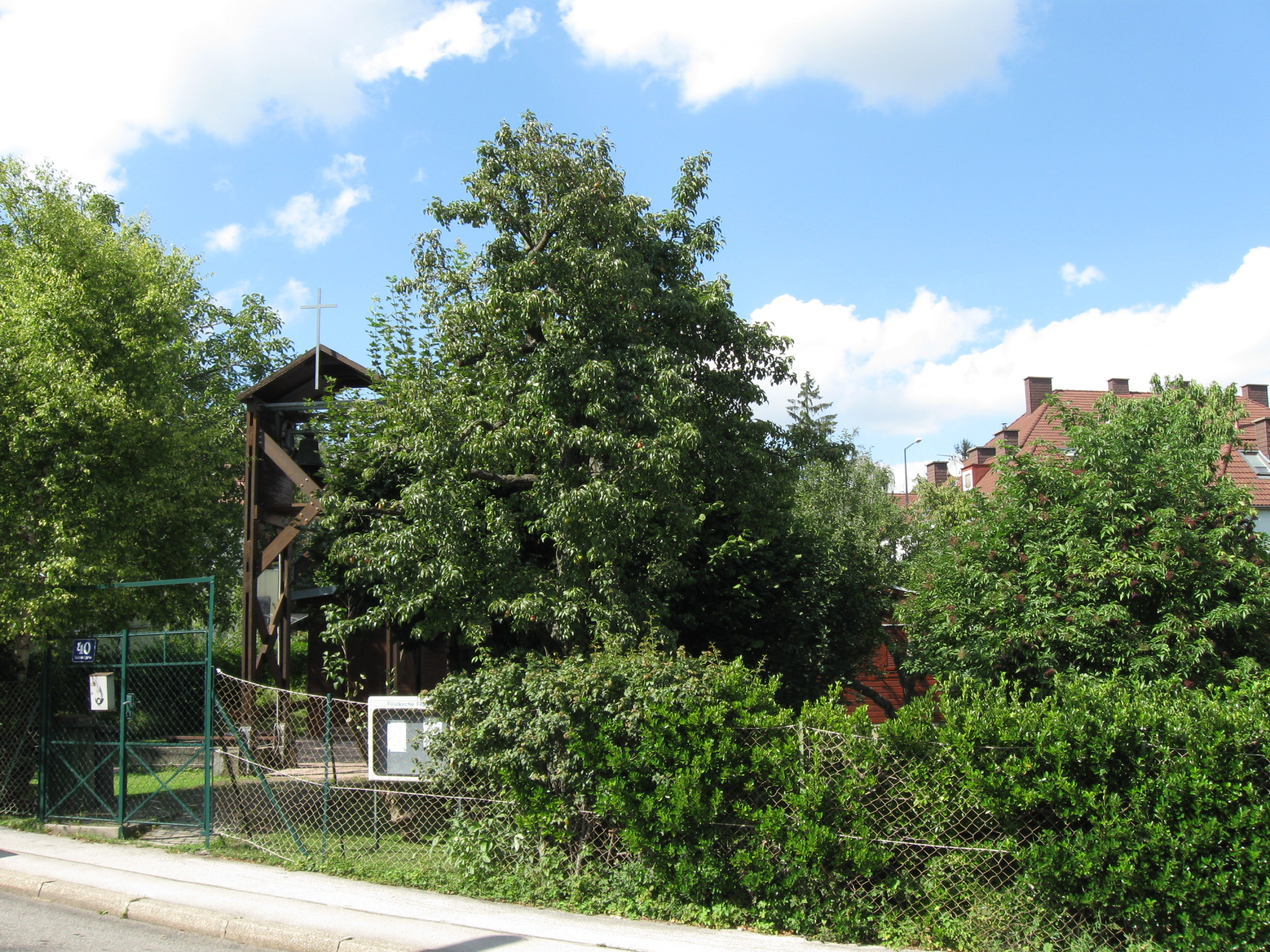 Fatima church, Vienna